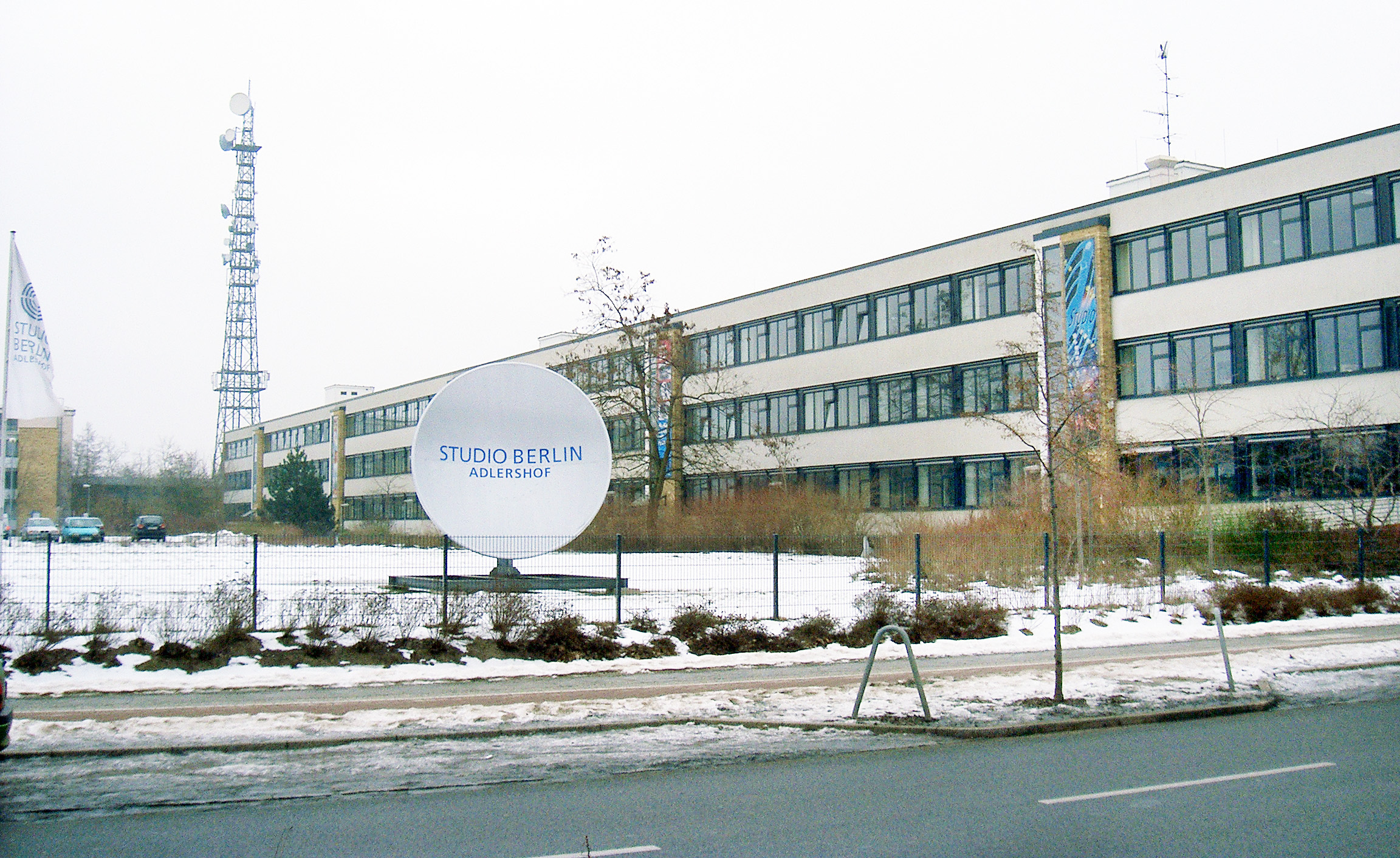 Studios A to F of Studio Berlin. These studios were part of the tv center of the former east german television.